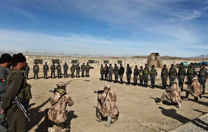 Czech soldiers from the 42nd Mechanical BN Force Rapid Deployment Brigade, demonstrate squad tactics to Afghan National Police in Logar province, Afghanistan, on Dec. 22, 2009. (U.S. Army Photo by Spc. Matthew Freire / Released)